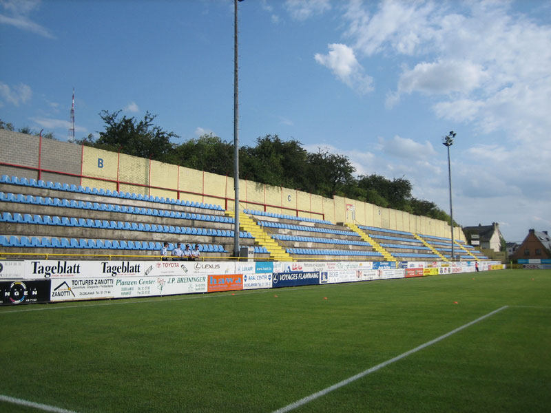 Stand of Stade Jos Nosbaum.